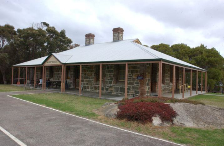 LIGHT HORSE MEMORIAL BUILDING. THE LIGHT HORSE BRIGADES FIGURED PROMINENTLY IN THE CAMPAIGNS IN PALESTINE IN WORLD WAR I. THE BUILDING HOUSES A MUSEUM ON THE GROUNDS OF PRINCESS ROYAL FORTRESS on Mount Adelaide, Albany, Western Australia